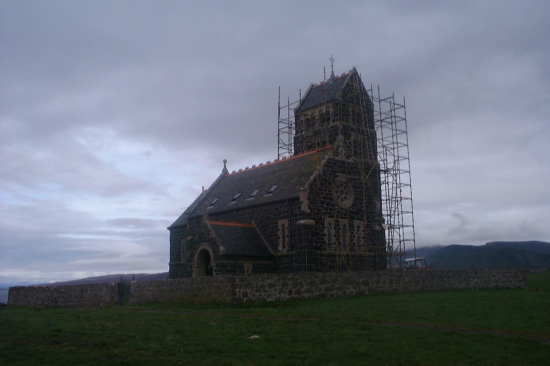 Church of St. Edward, on Sanday near Canna Island